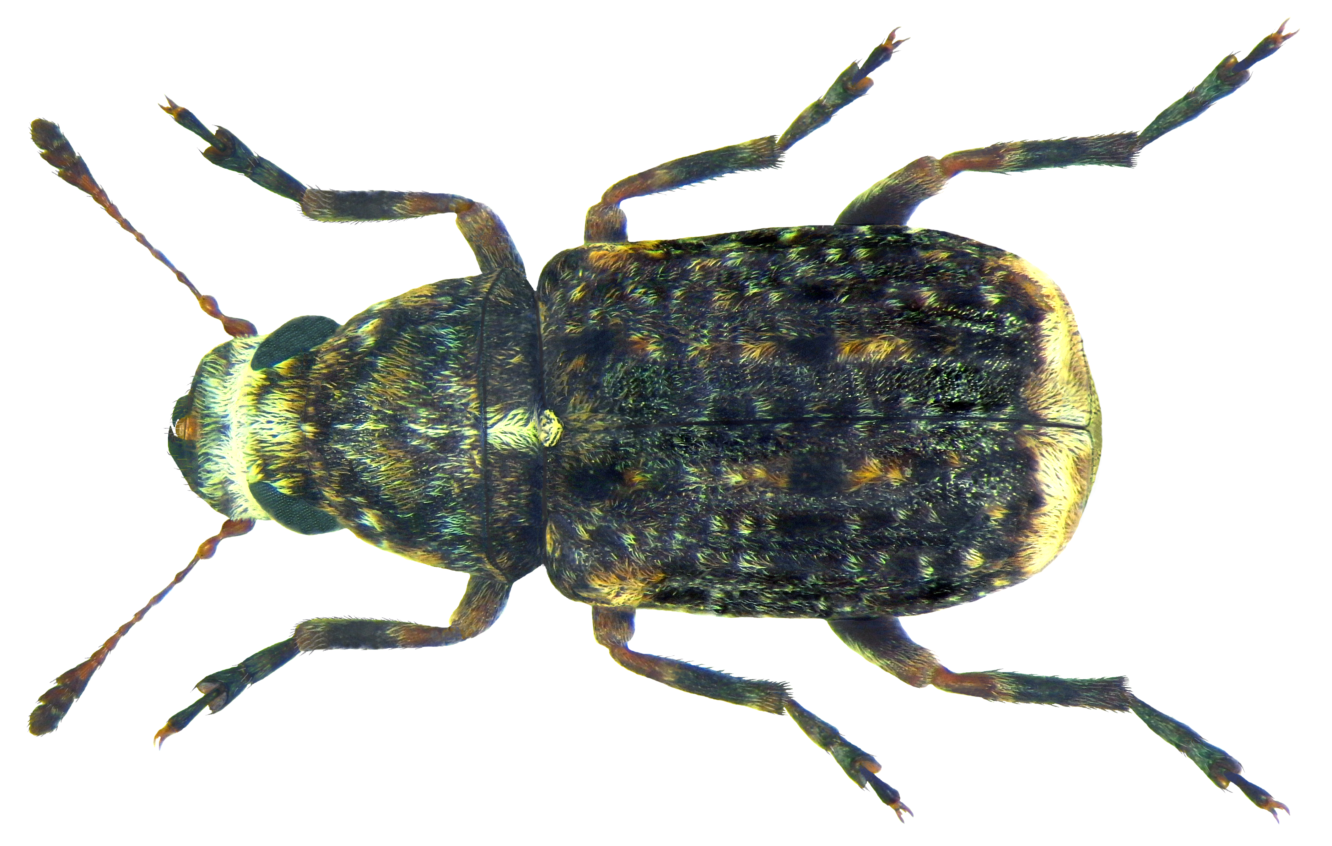 Dissoleucas niveirostris from England, Crichel, Dorset, specimen at Oxford Museum, photo July 2012